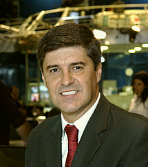 Flávio Fachel na redação da TV Globo, RJ